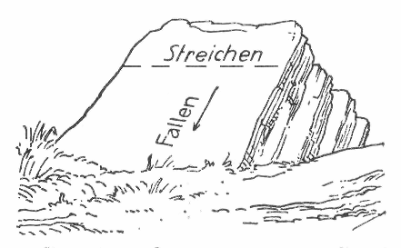 Illustration of strike and dip (German: Streichen und Fallen) in a layered rock